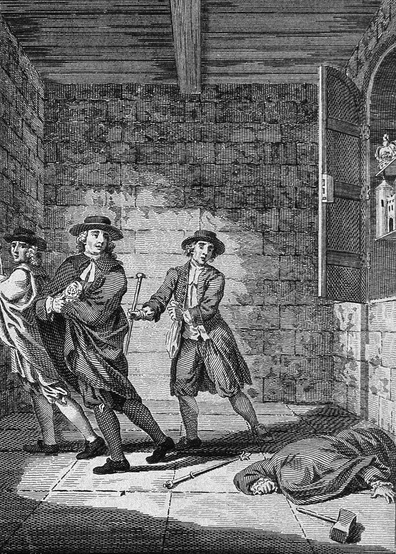 Blood and His Accomplices Making their Escape after Stealing the Crown of Charles the Second.